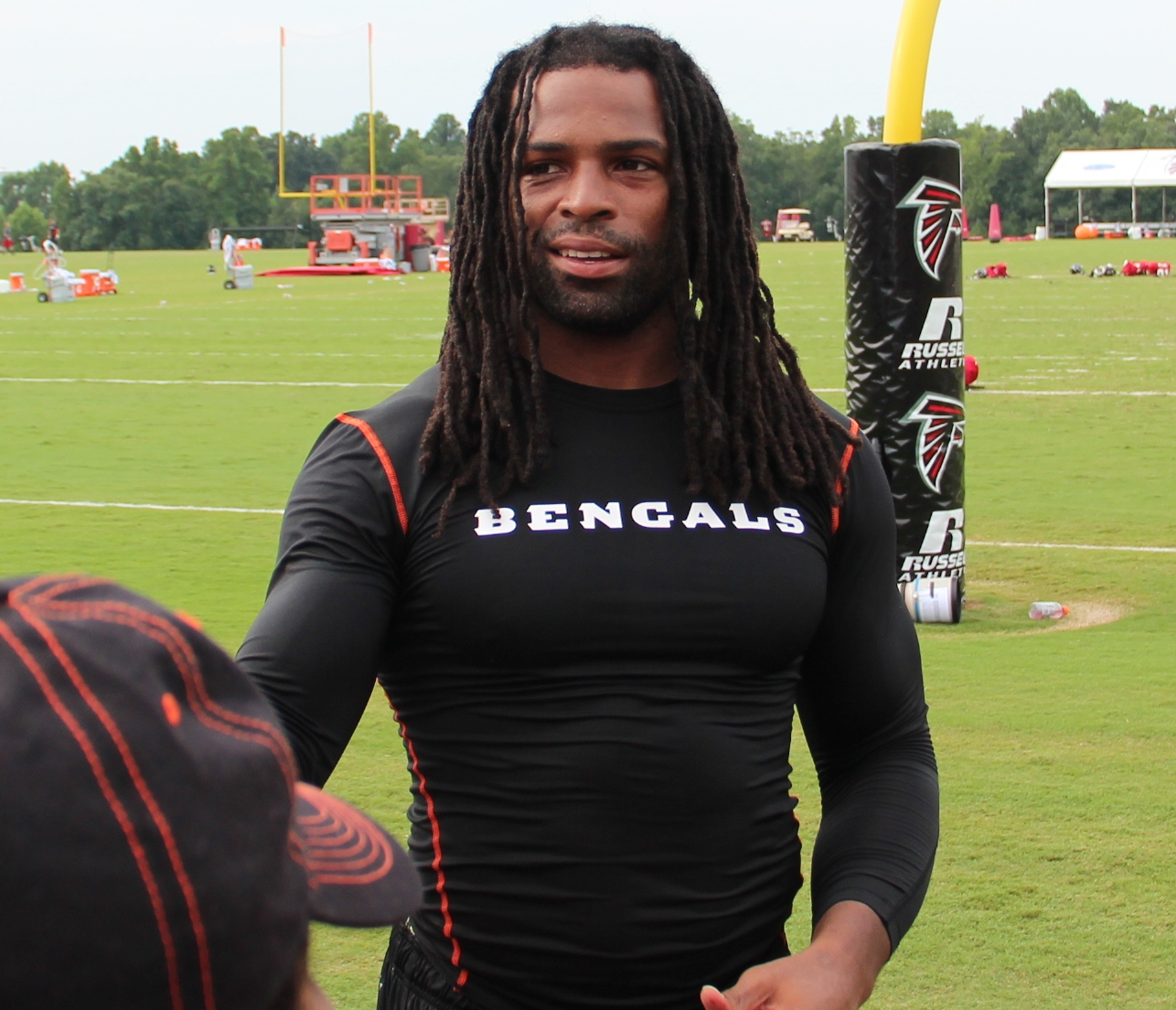 Falcons/Bengals combined training camp